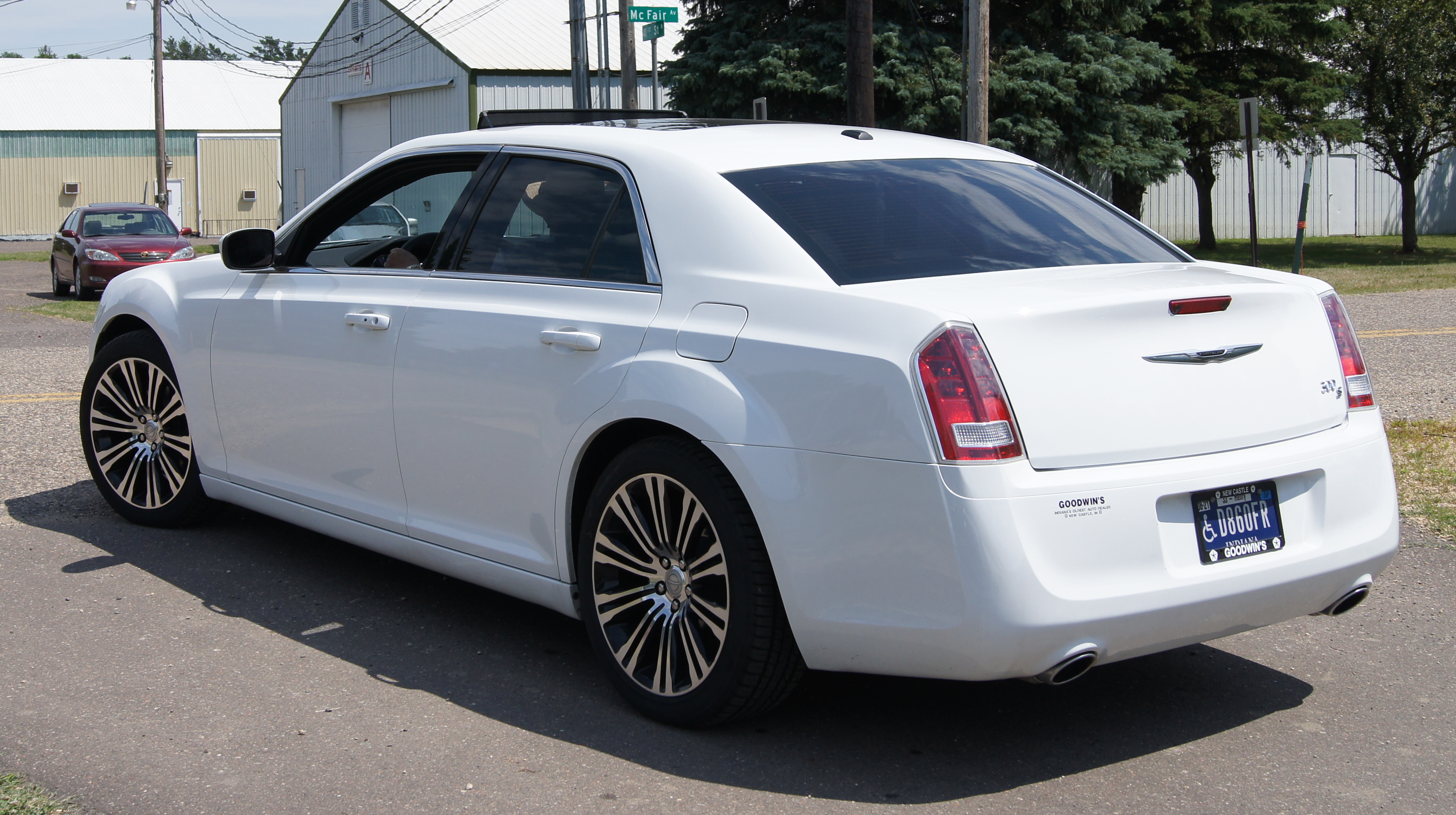 1st Combined Convention 28th Annual National DeSoto Club Convention & 44th Annual Walter P.Chrysler Club Convention July 17 - 21, 2013 Lake Elmo, Minnesota Click link below for more car pictures